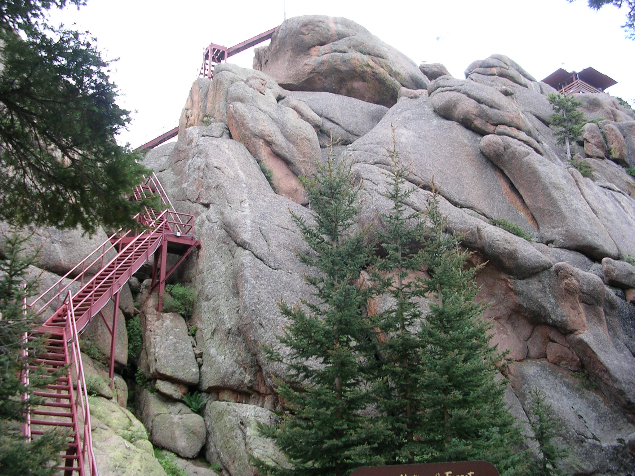 This is a picture of the stairs leading up to Devil's Head Lookout in Colorado. The tower is visible in the upper right corner.